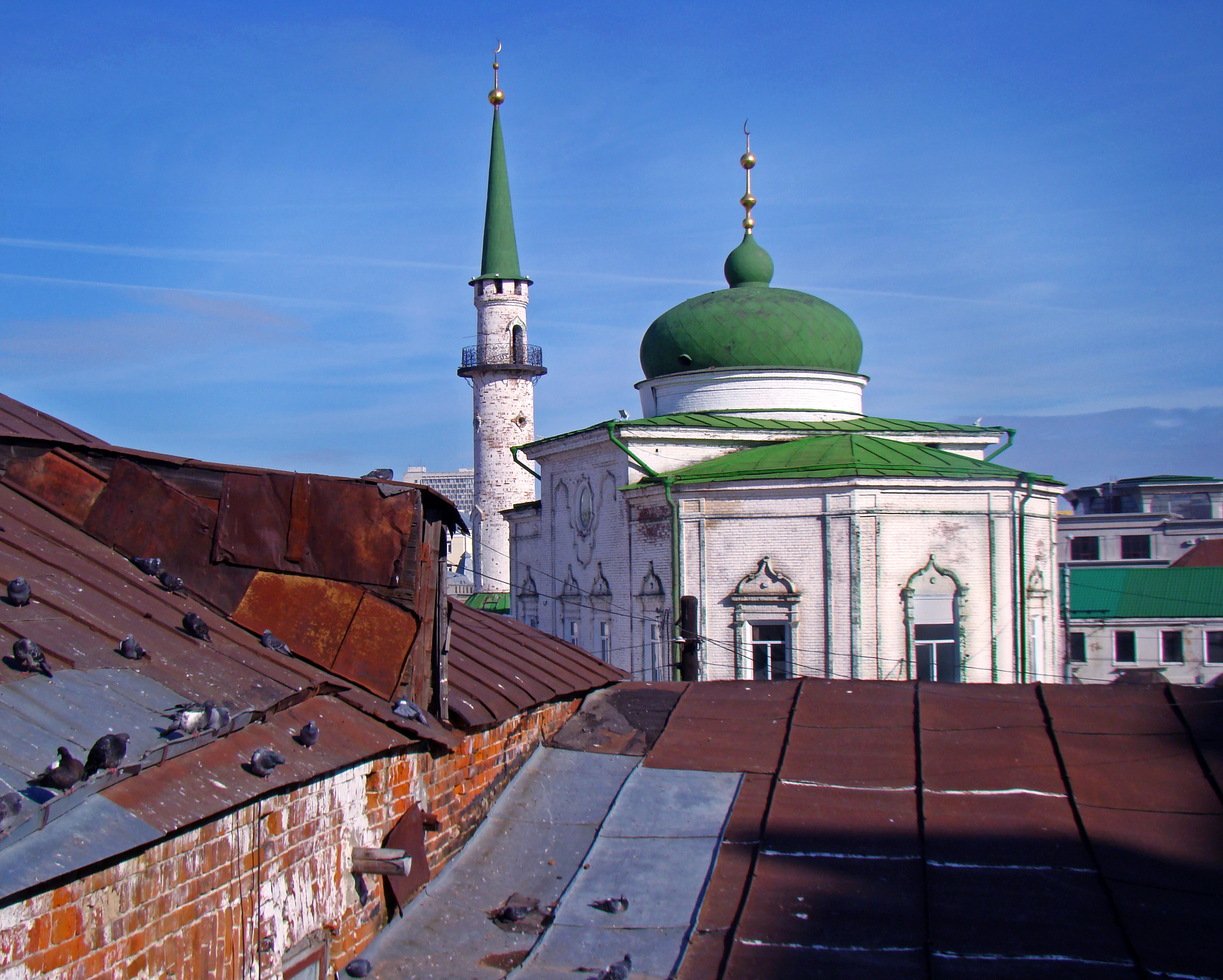 Nurulla Mosque, Kazan